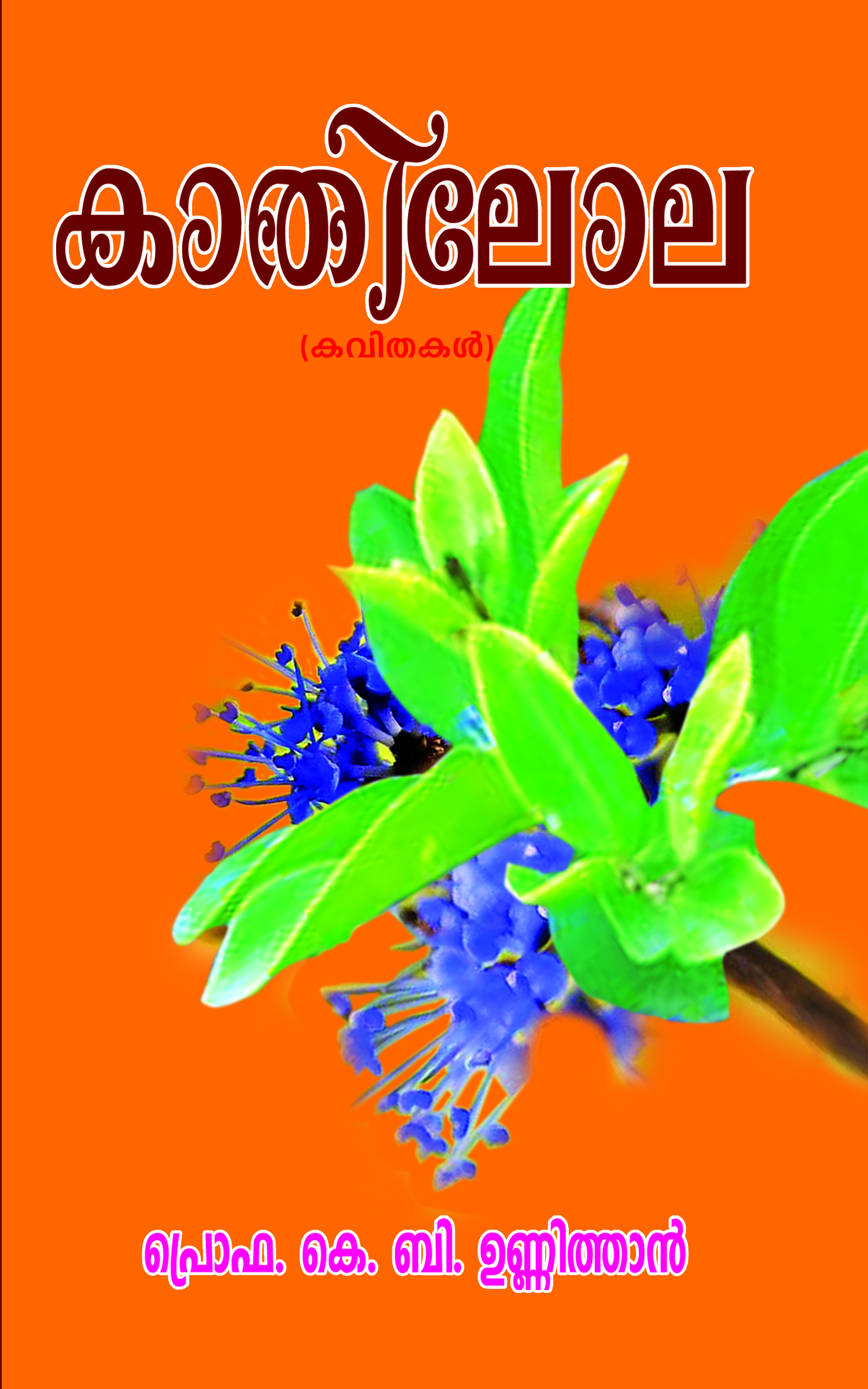 This a scanned front page copy of Kathilola book, a collection of 32 poems